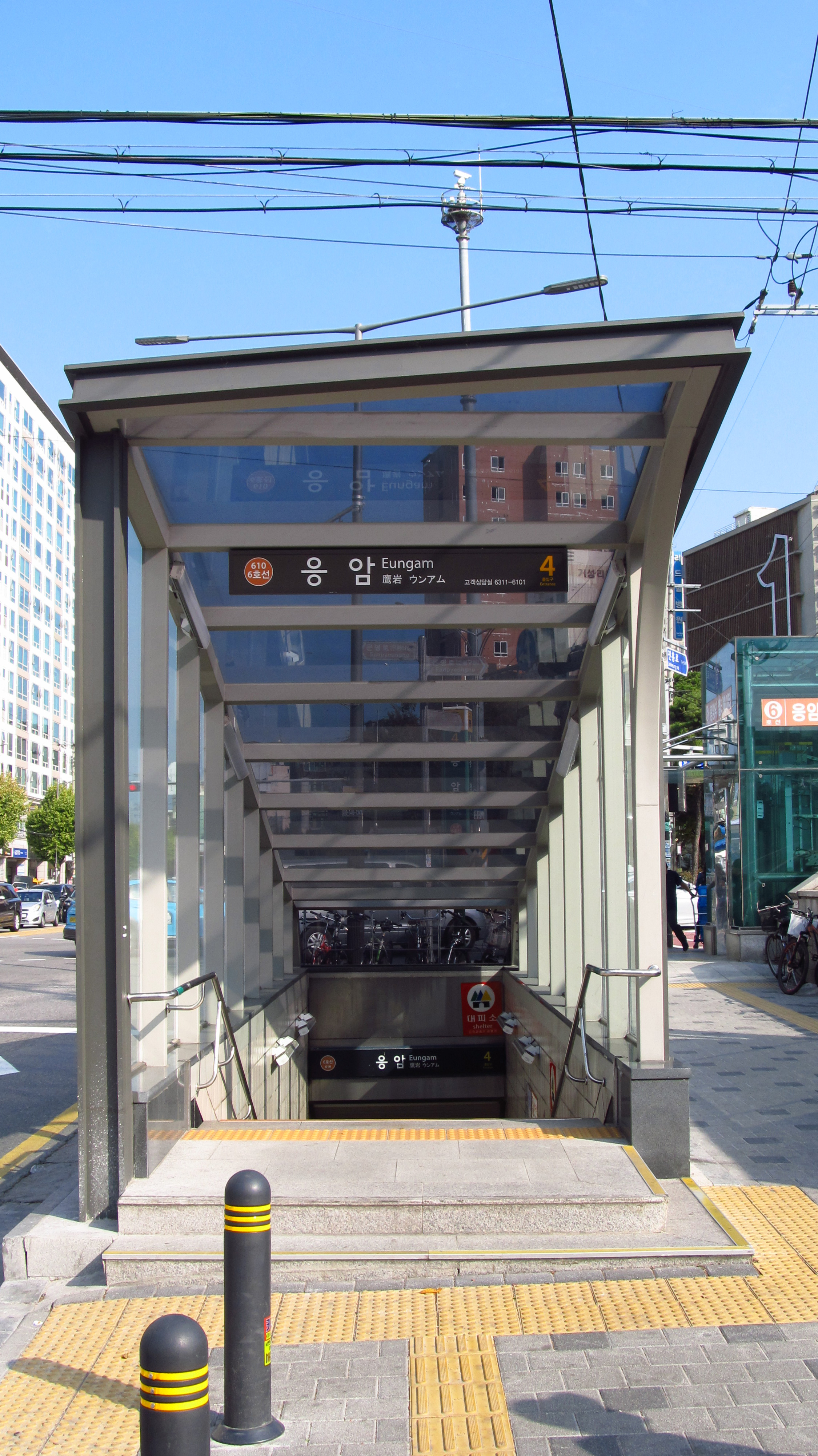 The no.4 entrance to Eungam Station on the Seoul Metro Line 6 in Eunpyeong-gu, Seoul, Republic of Korea(South Korea)